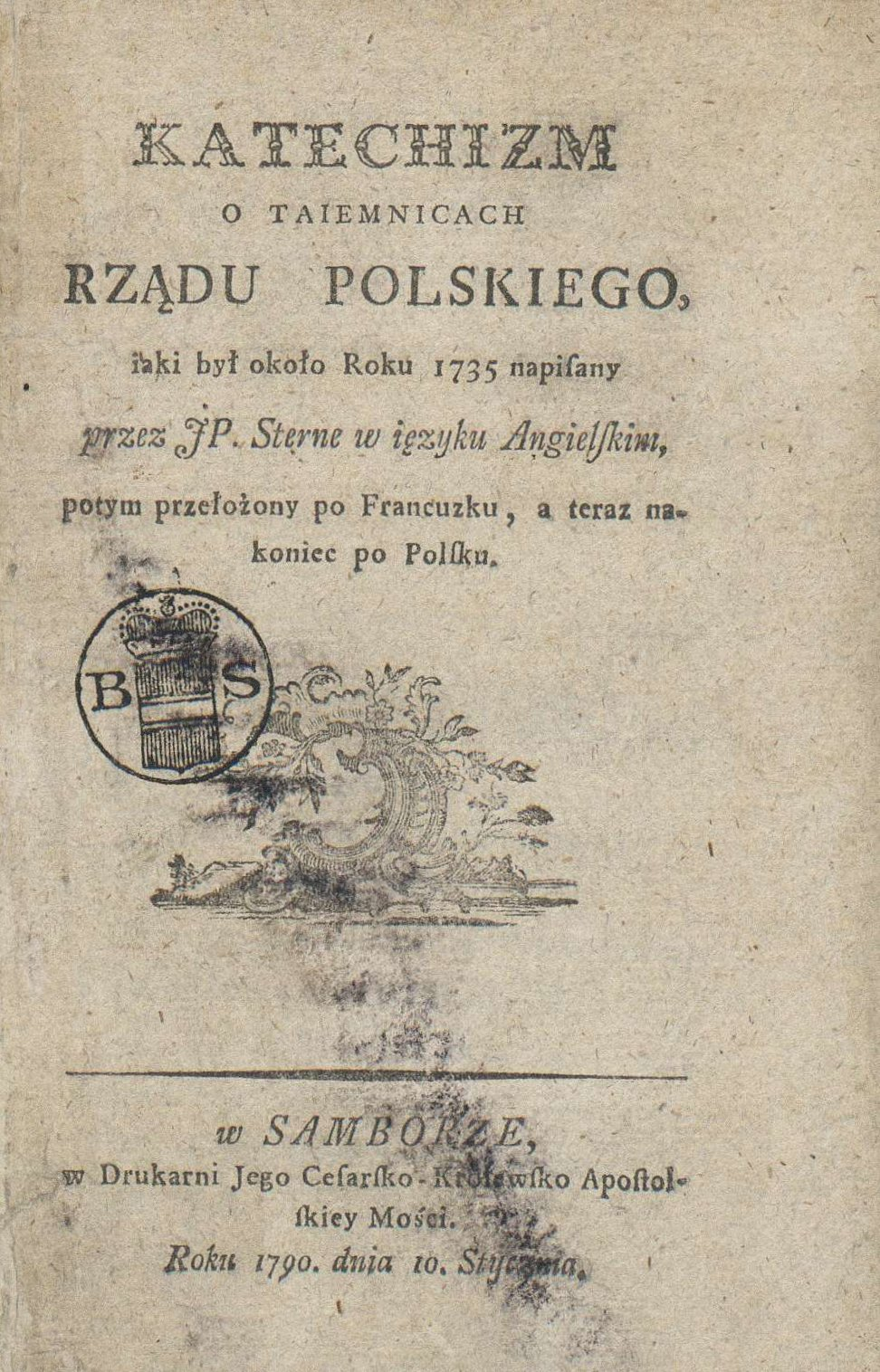 Title page of Katechizm o tajemnicach rządu polskiego by Franciszek Salezy Jezierski.